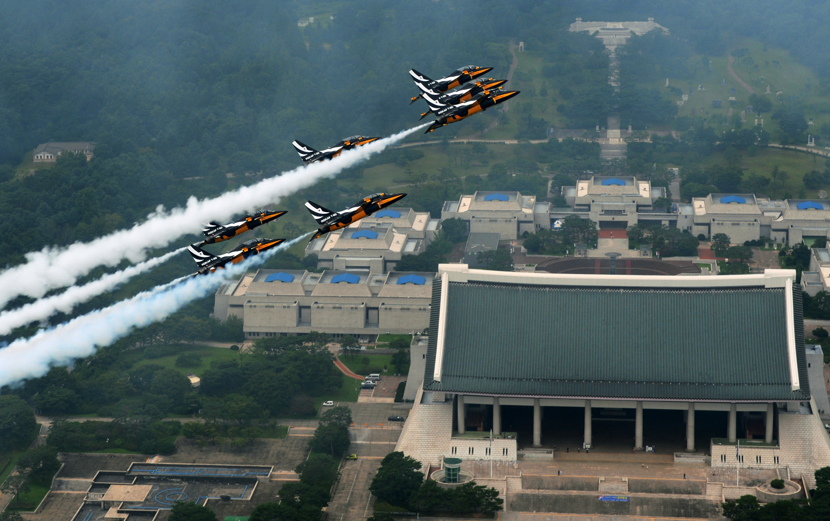 Black Eagles, Republic of Korea Air Force Aerobatic Team fly over the Independence Hall of Korea on August 11, 2013.